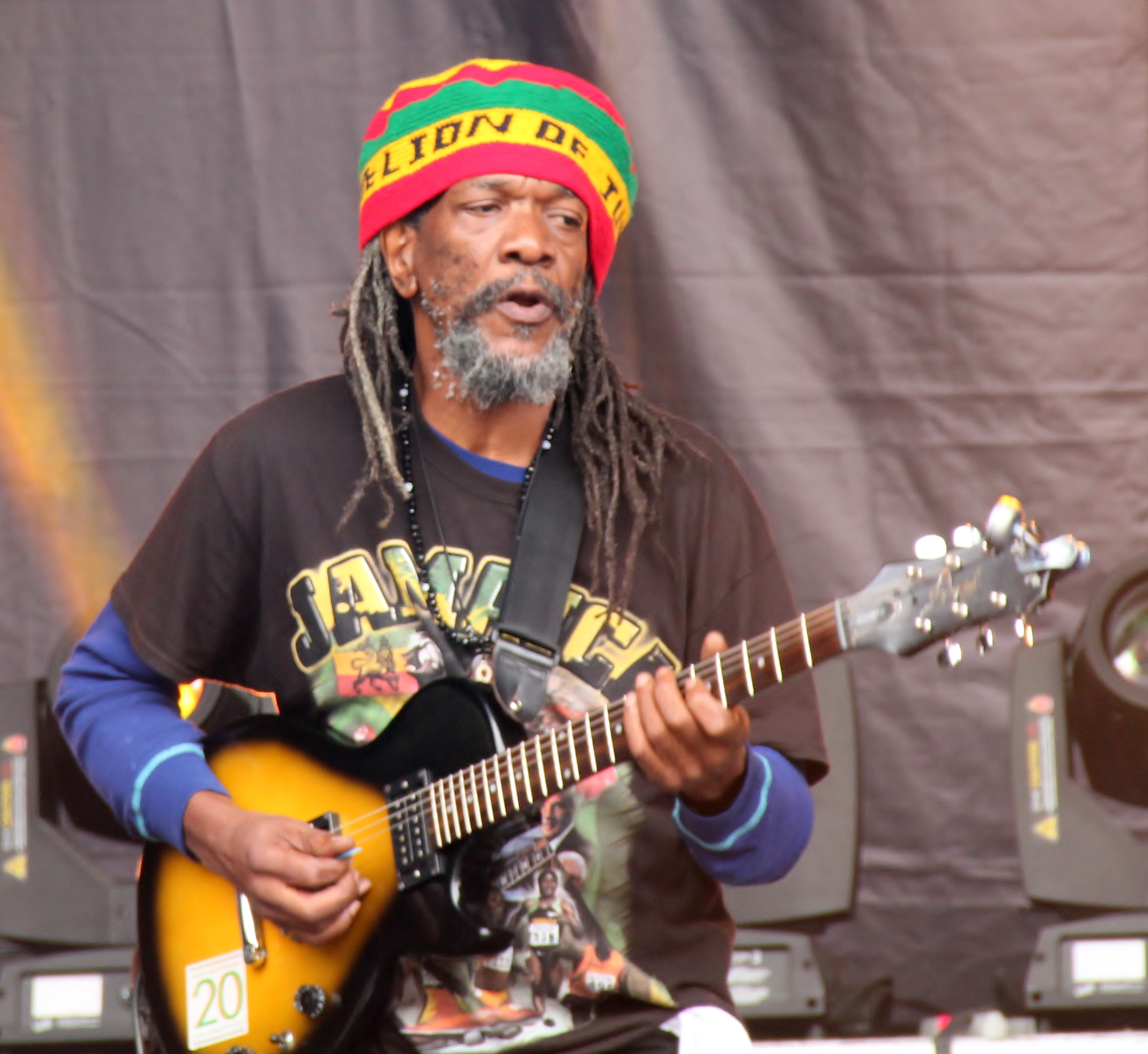 Shayar Jarrett with the The Global Citicen Band at the 2015 Granittrock in Oslo